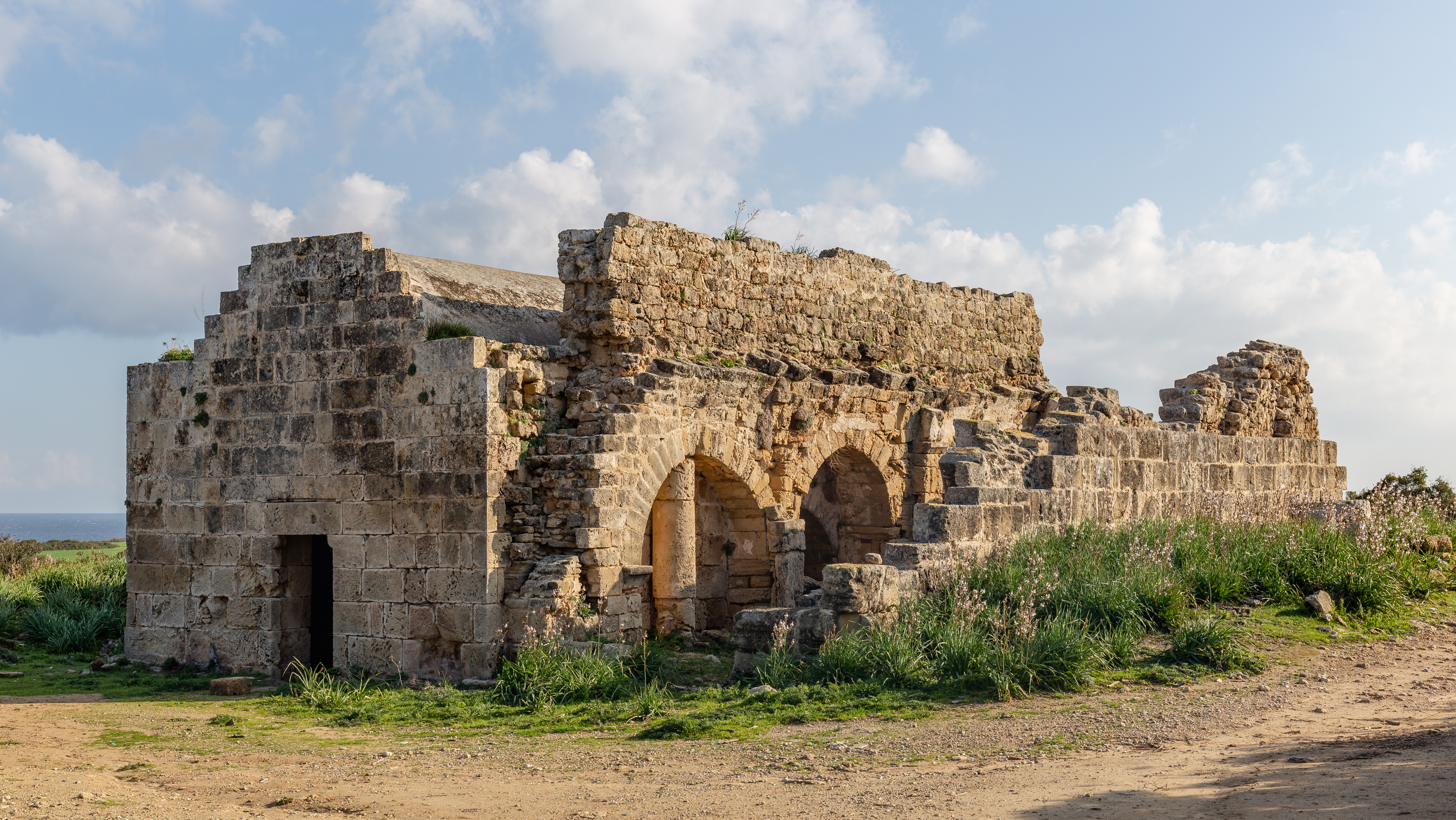 Panagia Chrysiotissa, Aphendrika, Northern Cyprus